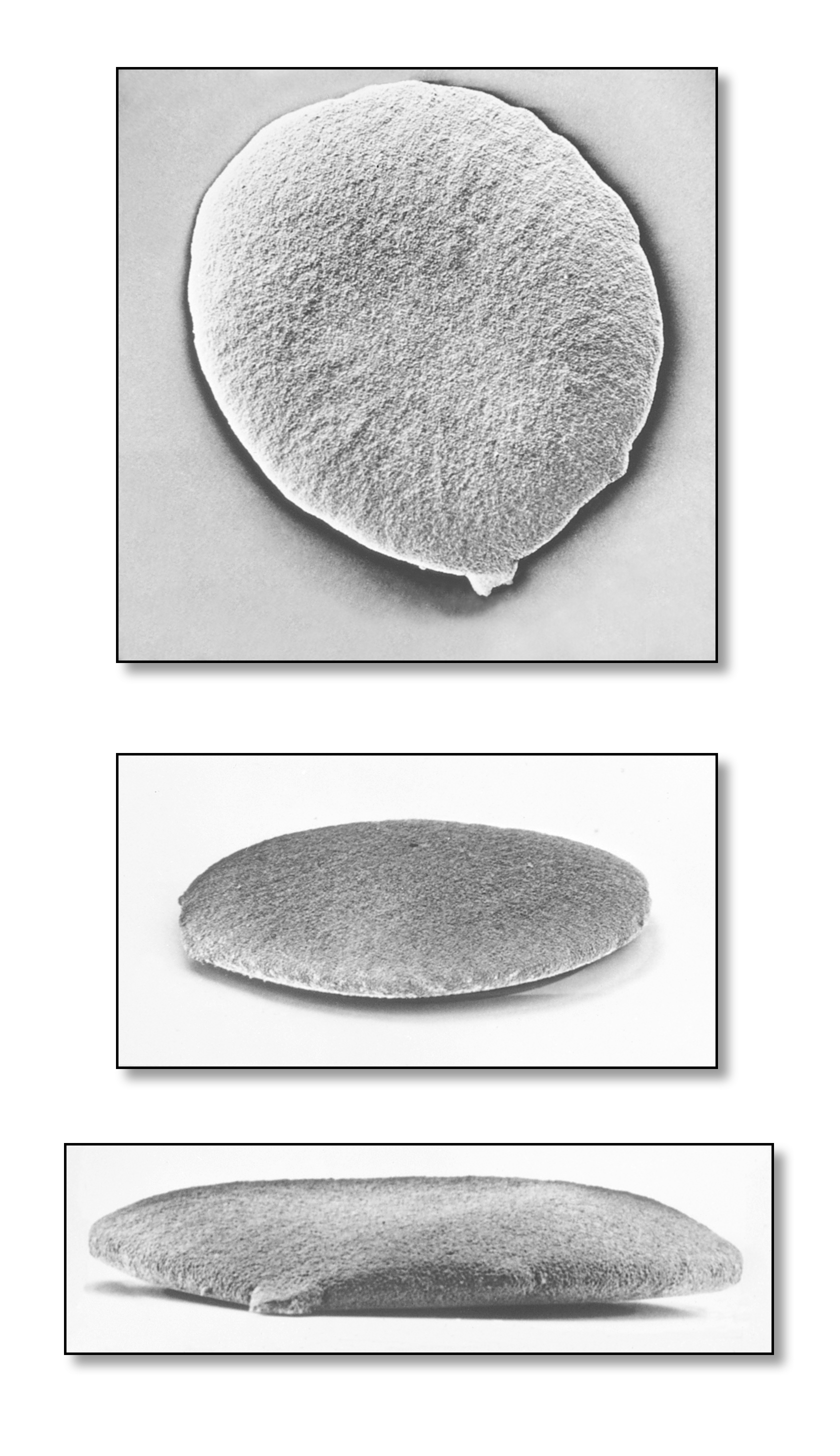 Scanning electron micrograph of a single Neisseria gonorrhoeae bacterium.